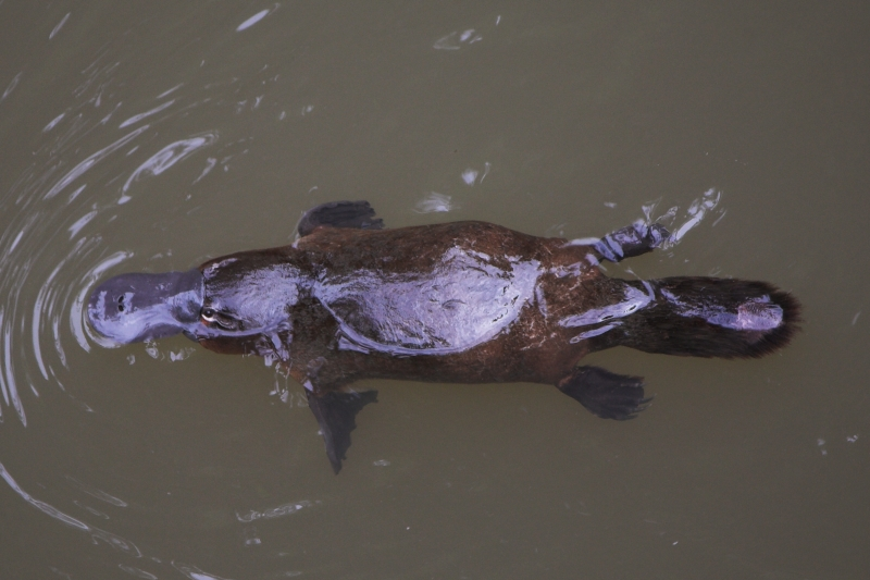 Platypus, Eungella Nationalpark, Queensland, Australia